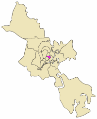 position of district 3 in an outline of the metropolitan area of HCMC (Ho Chi Minh City, Vietnam) - ISO code VN-F-HC. Keywords: map, outline, city, Ho Chi Minh City, HCMC, HCM, district 3, quan 3.